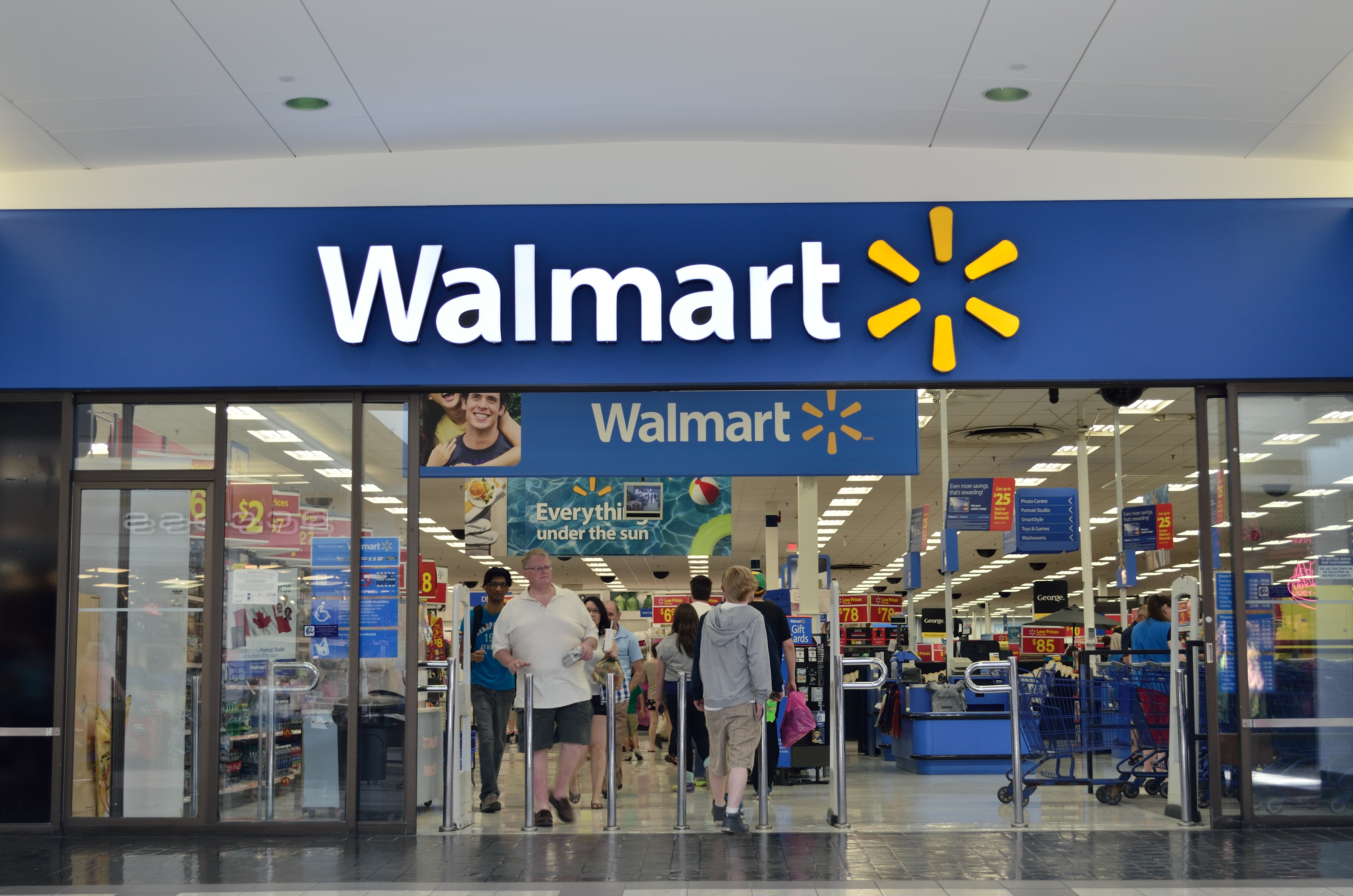 Walmart in London - 1105 Wellington Rd. S., London, ON